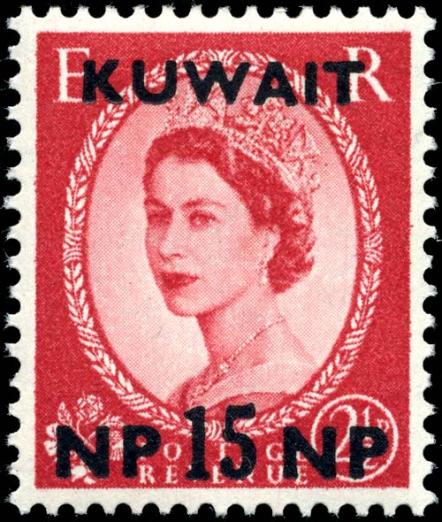 Kuwait 15np overprint stamp of 1957 (base stamp is from 1952)